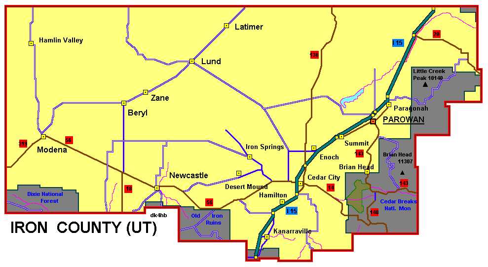 Iron County (UT),Detail, selfmade graphic by R.Blauert Dk4hb